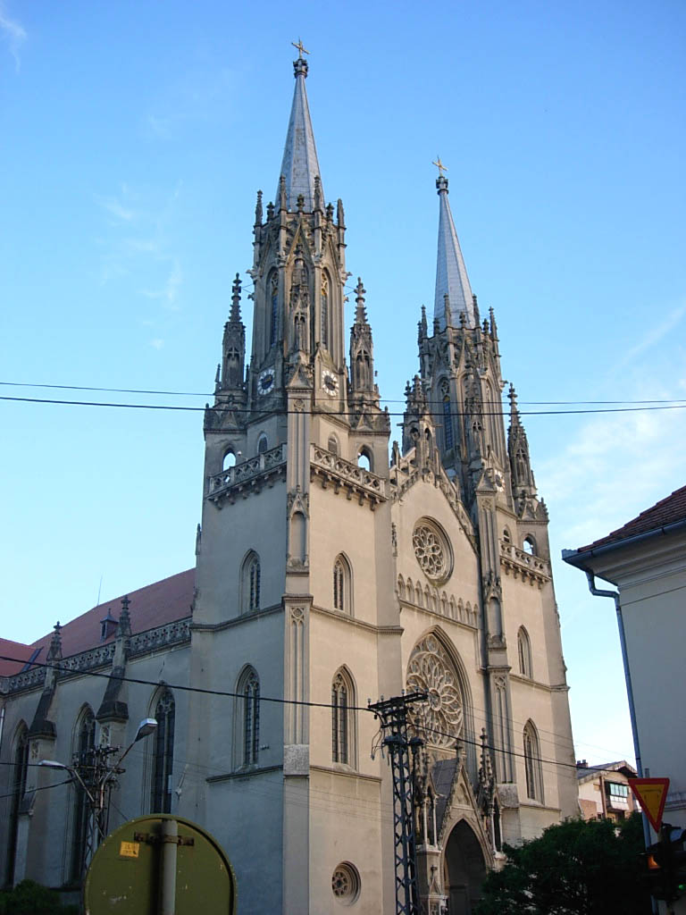 Saint Gerhard the Bishop and Martyr Roman Catholic Church in Vršac, Vojvodina, Serbia.